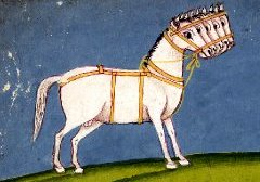 Uchchaisravas